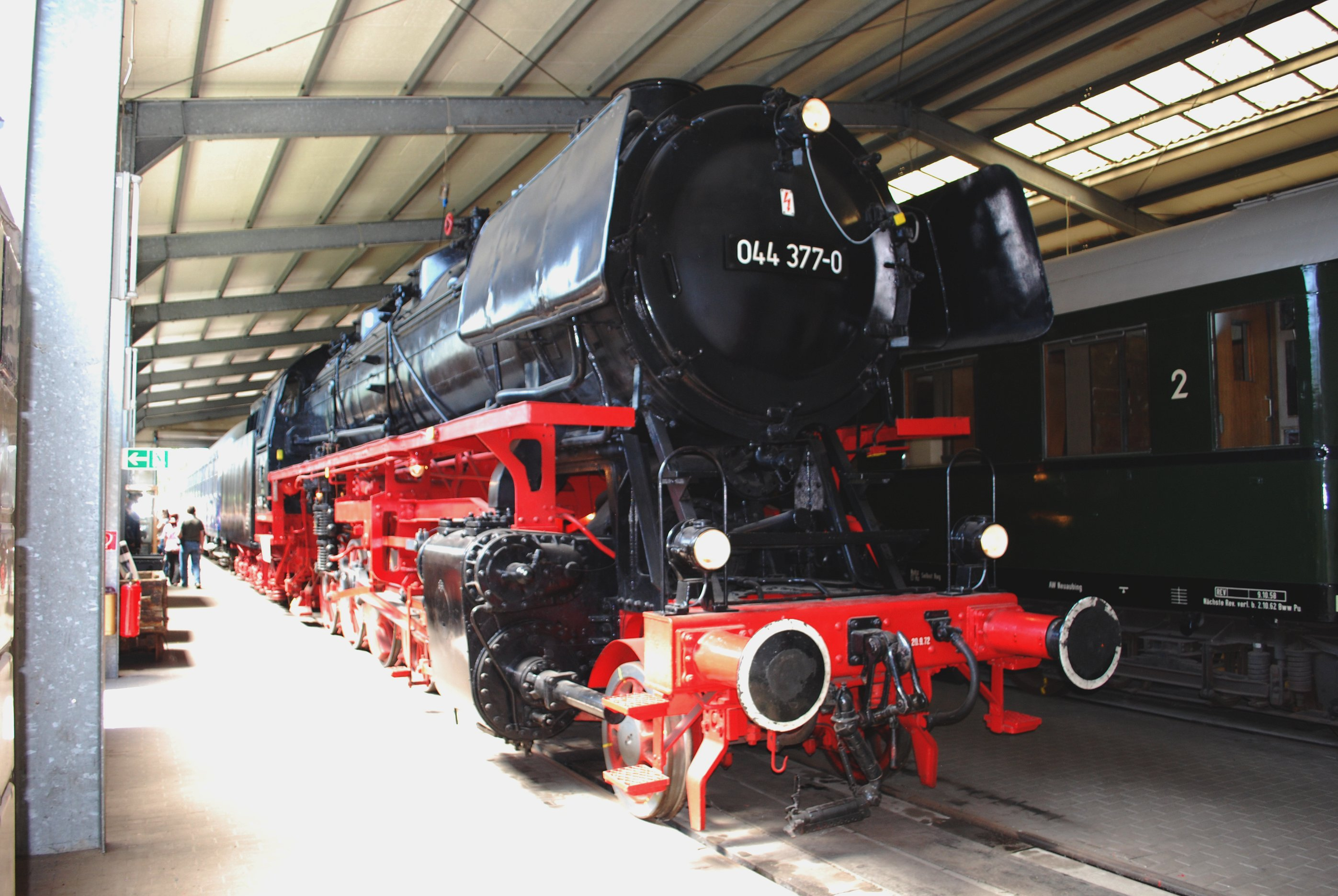 DRB Class 44 (DB Class 044 coal burner) 2-10-0 No.044 377 with 2'2'T34 tender at Bochum Dalhausen Museum Depot, 6/11.